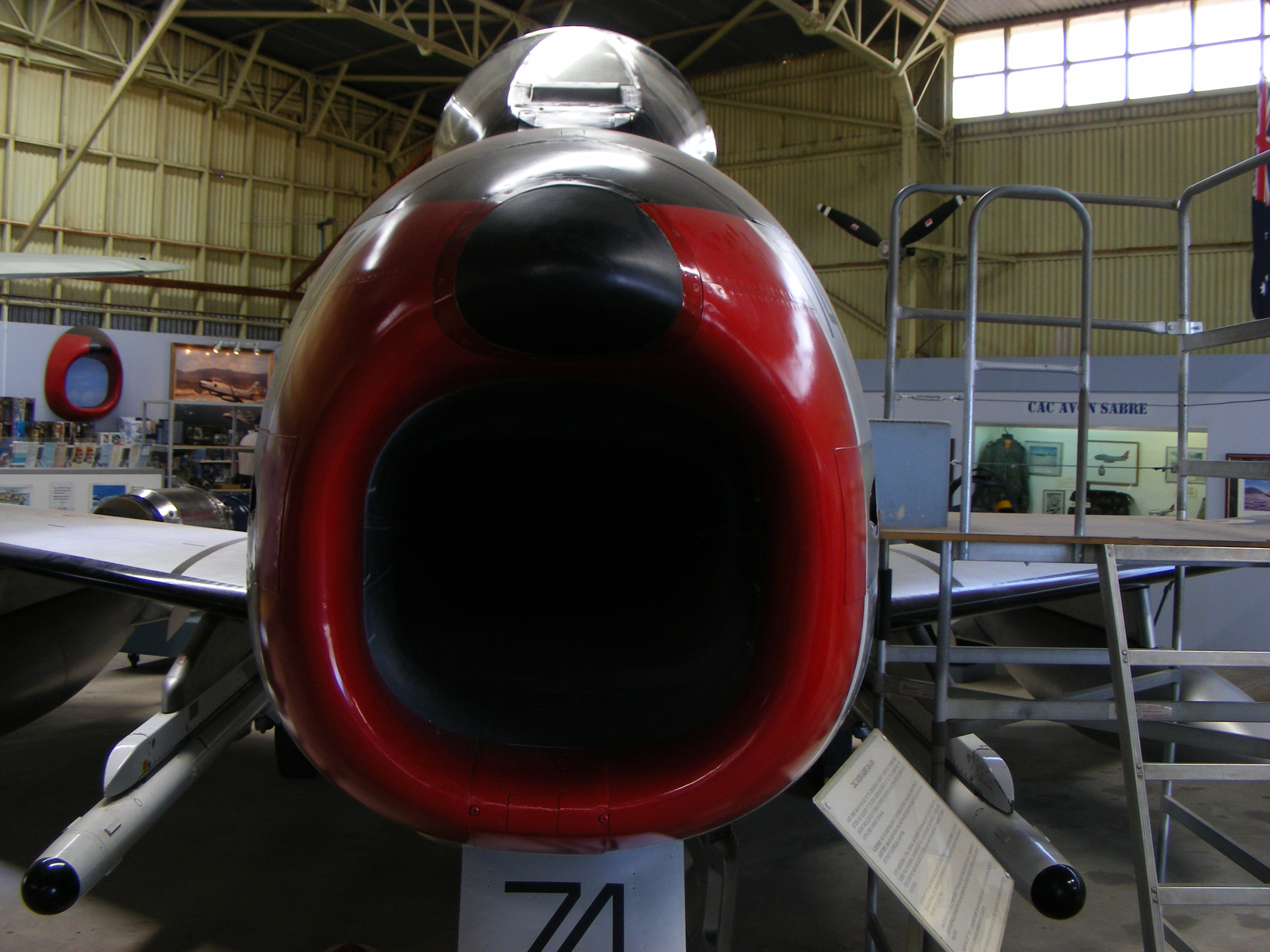 Engine air intake of RAAF Avon Sabre A94-974. On display at the Classic Jets Fighter Museum, Parafield airport, Adelaide, South Australia.